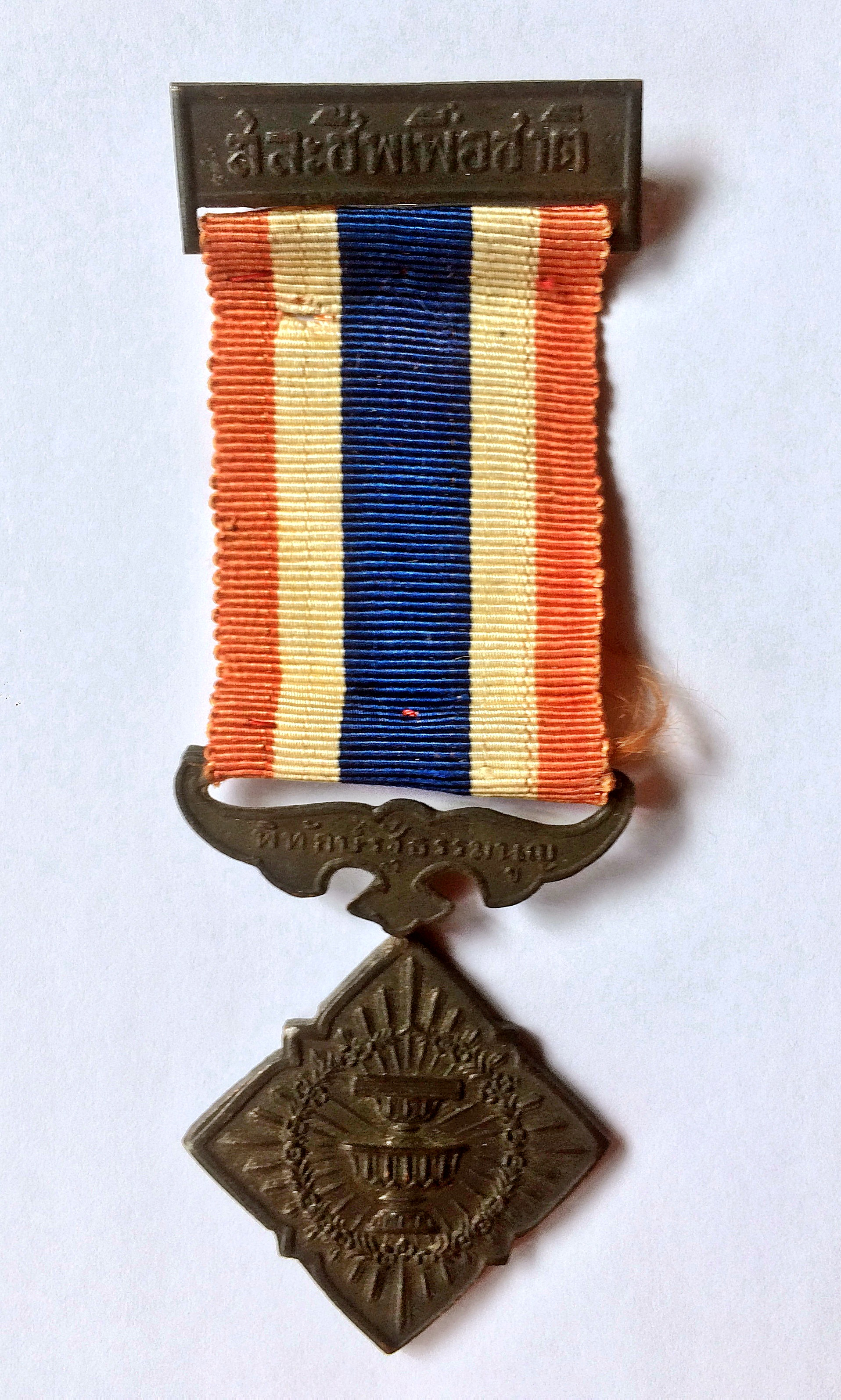 เหรียญพิทักษ์รัฐธรรมนูญ (The Safeguarding the Constitution Medal) in Wat Kungtapao Local Museum. at Wat Khung Taphao, Ban Khung Taphao, Khung Taphao subdistrict, Mueang Uttaradit, Uttaradit Province, Thailand.